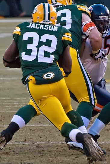 Lambeau Field - January 2, 2011. Photo by Mike Morbeck.